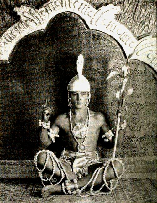 Still from the American film The Young Rajah (1922) with Rudolph Valentino in a dream sequence, on page 88 of the November 1922 Photoplay.